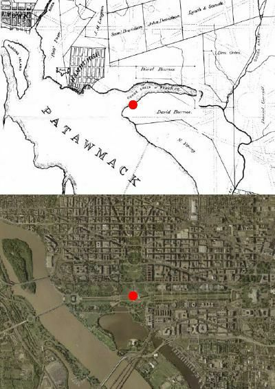 Comparison of Washington, D.C. from 1800 historic map and modern satelite image, showing location of Jefferson Pier.